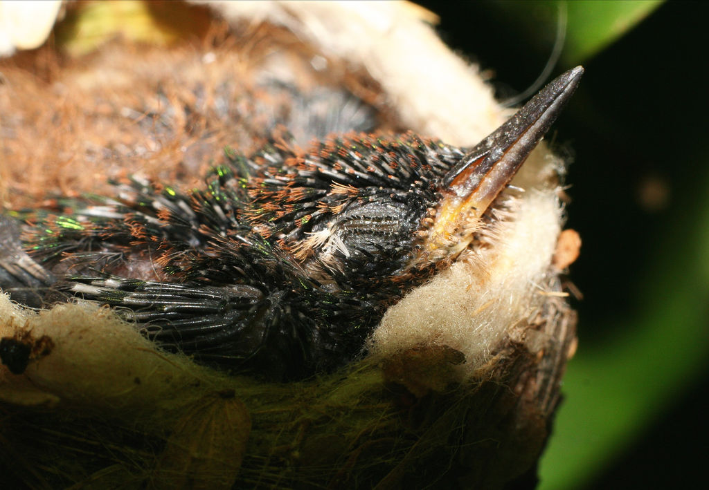 1 week old hummingbird Chlorostilbon mellisugus (Common Emerald). Possibly Curaçao.